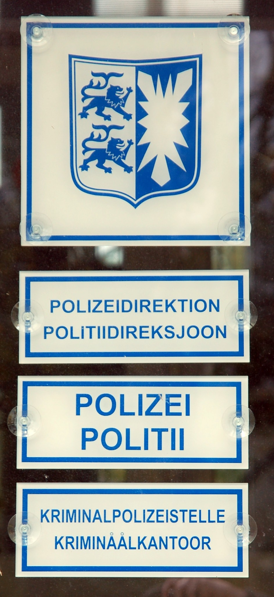 Bilingual signs German-Frisian at the police station in Husum, Germany.